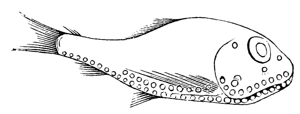 Ichthyococcus ornatus